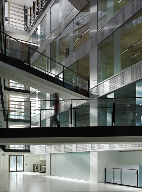 Atrium of the Manchester Institute of Biotechnology